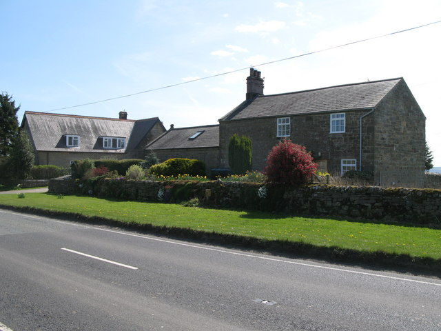 (The site of) Milecastle 20 (Halton Shields), near to Halton, Northumberland, Great Britain. The milecastle lies under the gardens of the houses at the east end of the hamlet. {Source: "Handbook to the Roman Wall" (14th Edition) by J Collingwood Bruce.}